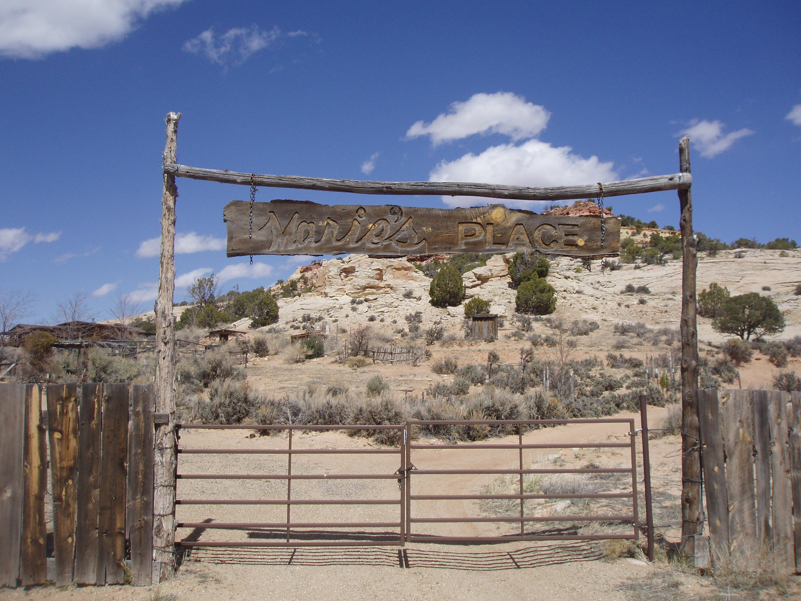 Entrance to the "Inner Portal" of Home of Truth, a ghost town in southeastern Utah, United States.